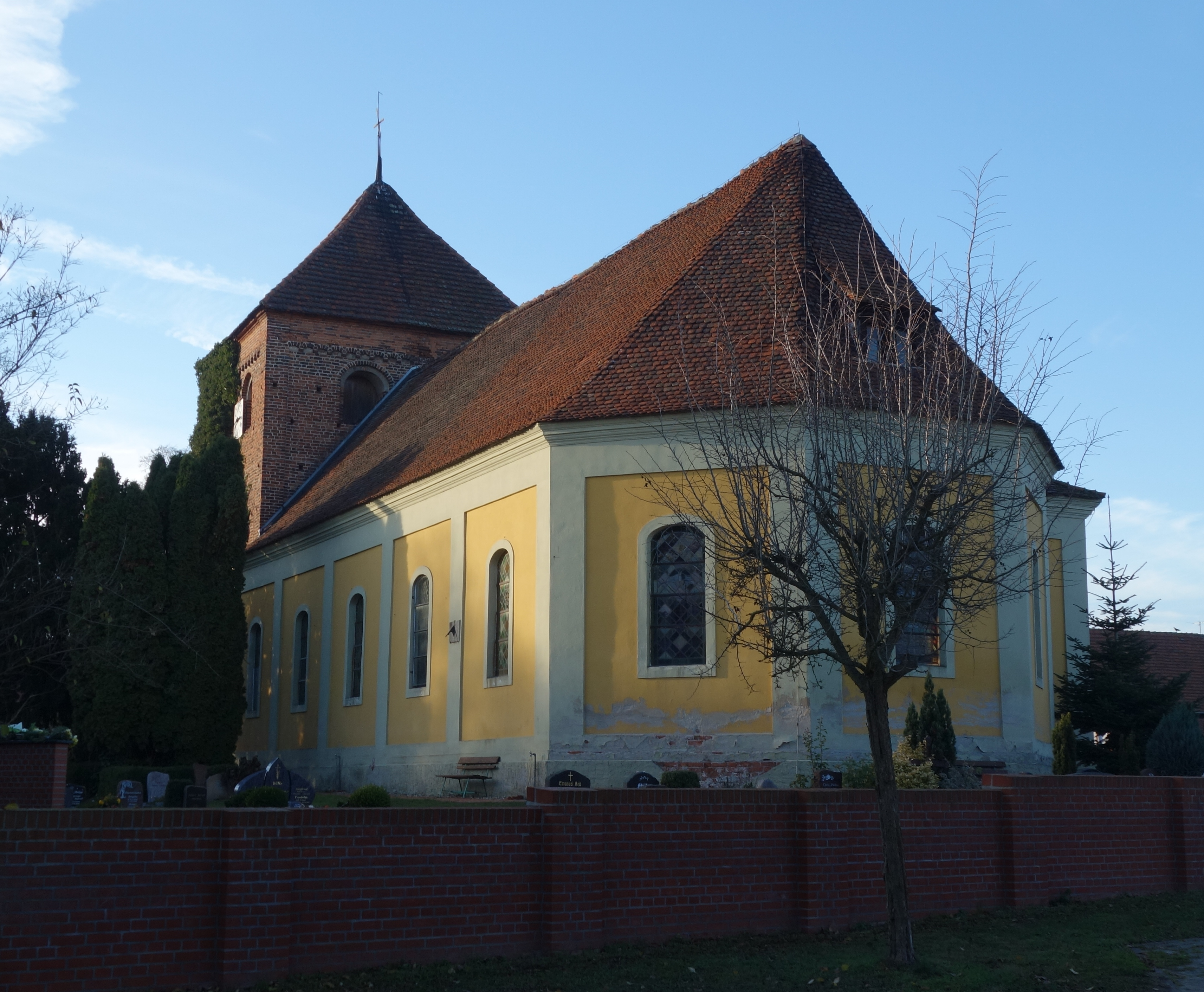 South-eastern view of church in Hohennauen, Seeblick municipality, Havelland district, Brandenburg state, Germany.